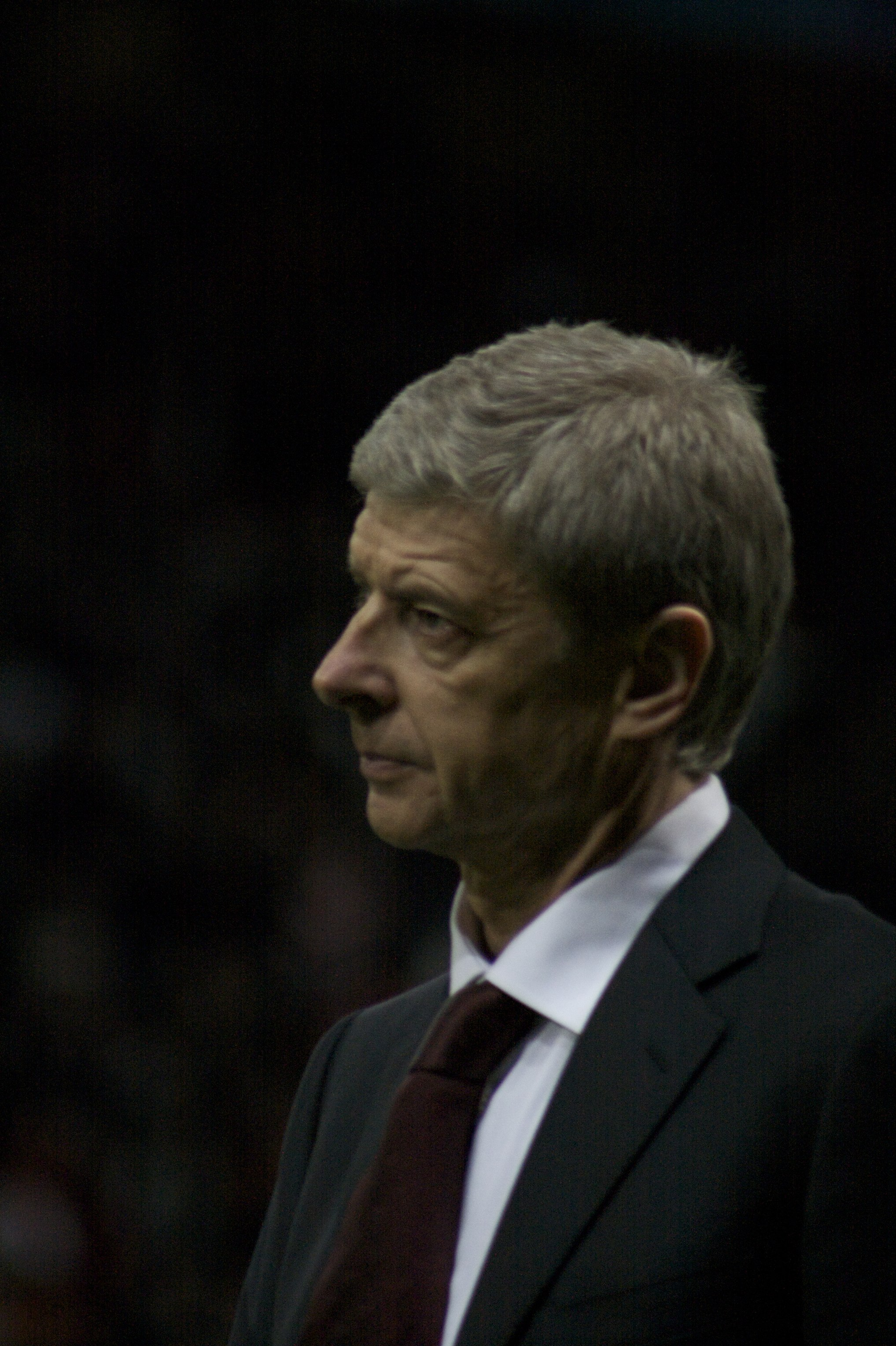 Football manager Arsène Wenger during Arsenal's UEFA Champions League semi-final first leg against Manchester United in April 2009.